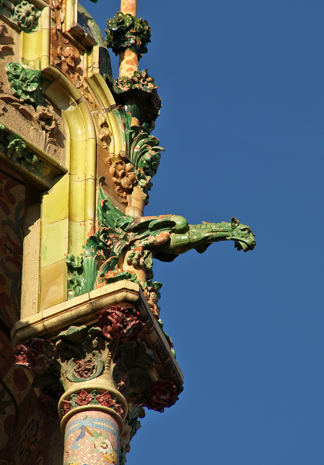 La Rotonda - Catalan Modernisme (Adolf Ruiz i Casamitjana, 1906)